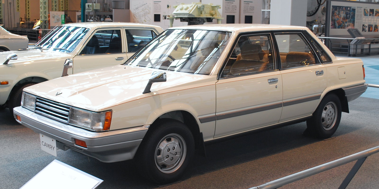 2nd generation Toyota Camry V10